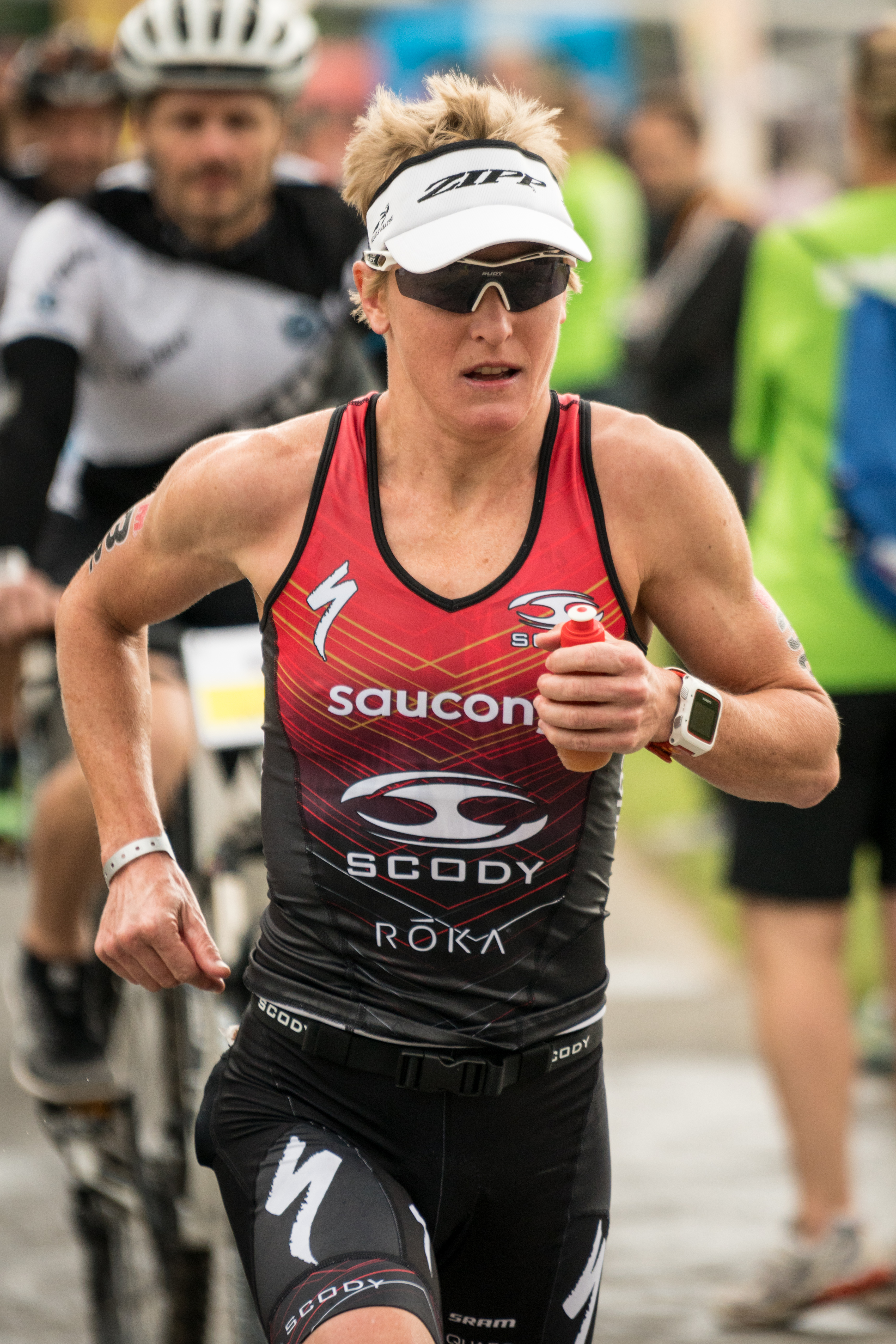 Female winner Melissa Hauschildt at the 2016 Ironman European Championship in Frankfurt am Main (Germany).